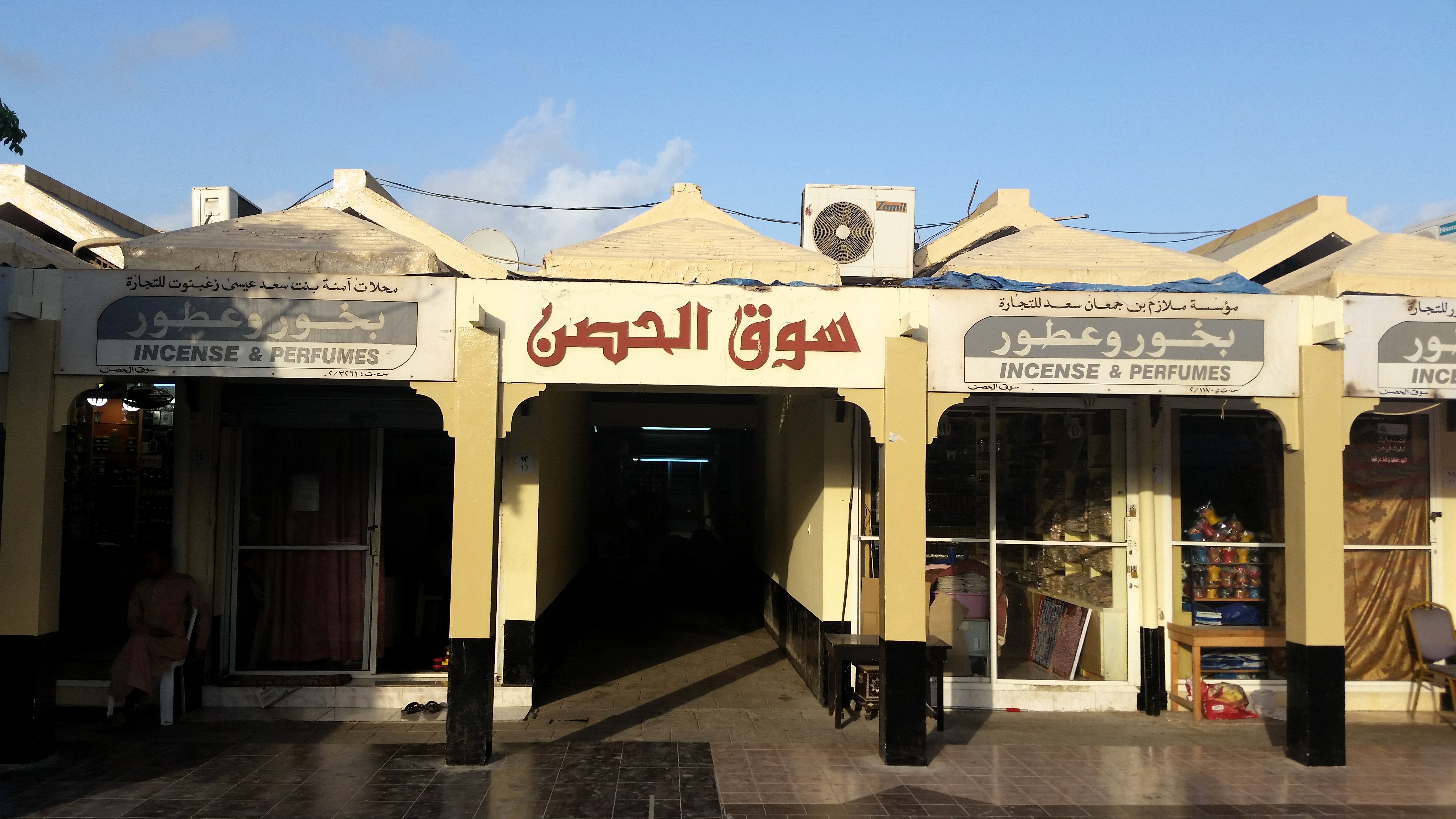 Alhusn-market-1